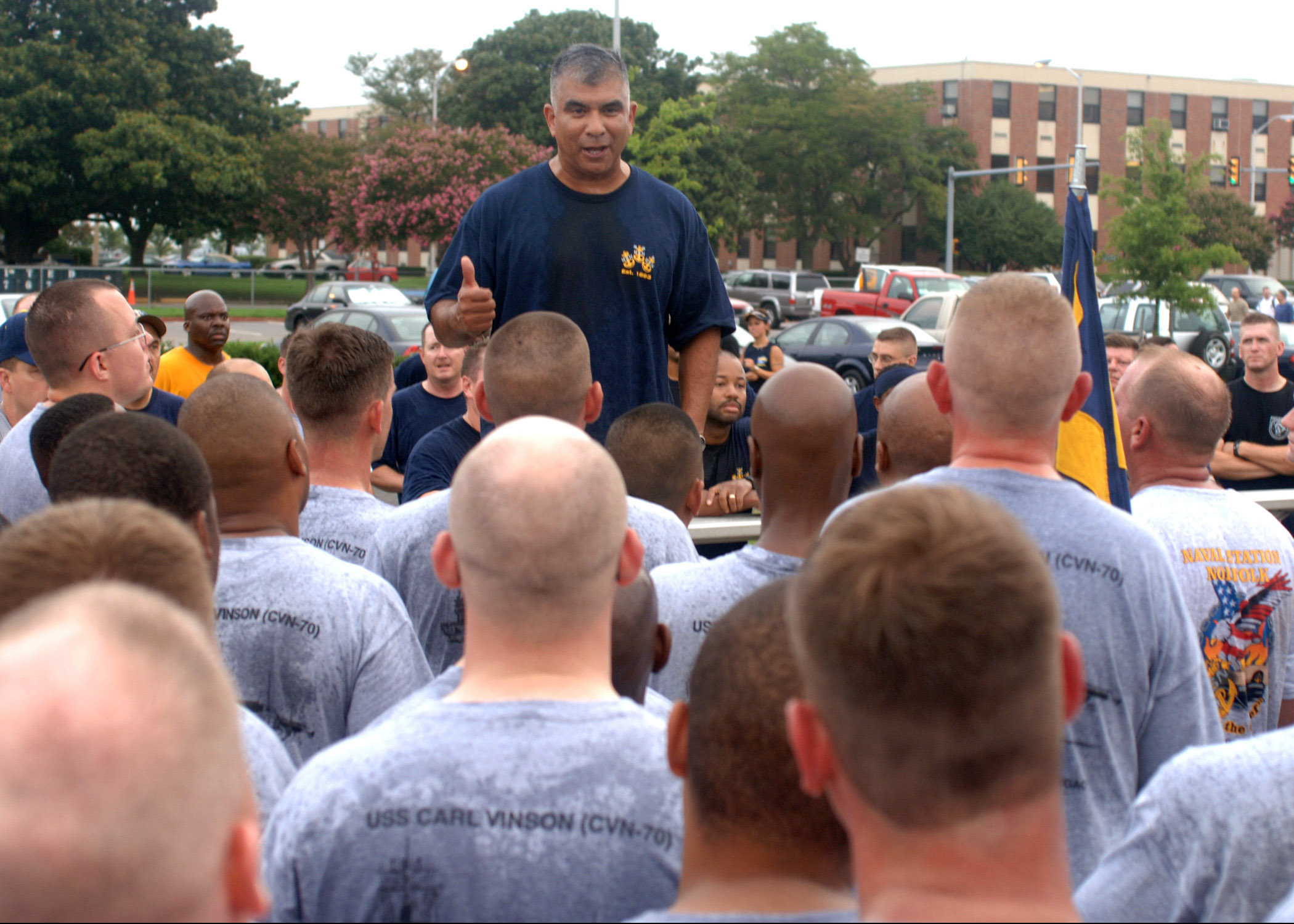 NORFOLK, Va. (Aug. 10, 2007) - Master Chief Petty Officer of the Navy (MCPON) Joe Campa Jr., gives a thumbs up after a job well done during the chief selectees' initial physical training session at Naval Station Norfolk. Chief petty officers and chief selectees from various commands in the Norfolk area participate in one of the many events they will partake in during the induction season. U.S. Navy photo by Chief Mass Communication Specialist Michael J. Roberts (RELEASED)